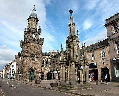 Photographed and edited by A M Wilson, 2004